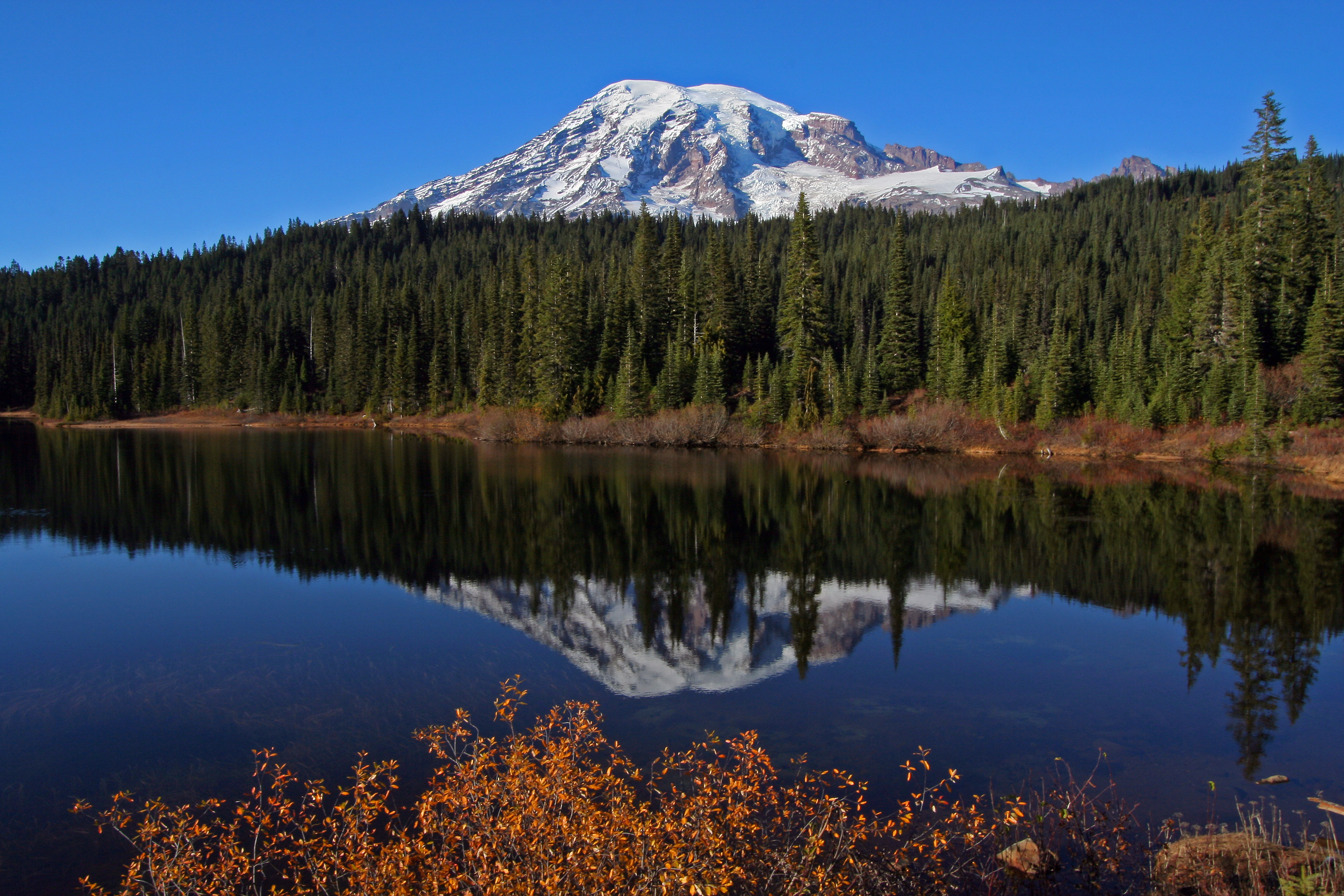 Nothing better than just a simply beautiful view of Mount Rainier from Reflection Lake. Mount Rainier, the highest peak in the Cascade Range at 4,392m (14,410 ft), forms a dramatic backdrop to the Puget Sound region. During an eruption 5,600 years ago the once-higher edifice collapsed to form a large crater open to the northeast much like that at Mount St. Helens after 1980. Ensuing eruptions rebuilt the summit, filling the large collapse crater. Large lahars (volcanic mudflows) from eruptions and from collapses of this massive, heavily glaciated andesitic volcano have reached as far as the Puget Sound lowlands. Since the last ice age, several dozen explosive eruptions spread tephra (ash, pumice) across parts of Washington. The last magmatic eruption was about 1,000 years ago. Extensive hydrothermal alteration of the upper portion of the volcano has contributed to its structural weakness promoting collapse. An active thermal system driven by magma deep under the volcano has melted out a labyrinth of steam caves beneath the summit icecap. Learn more about Mount Rainier at Photo Credit: Alan Cressler (alan_cressler on Flickr)